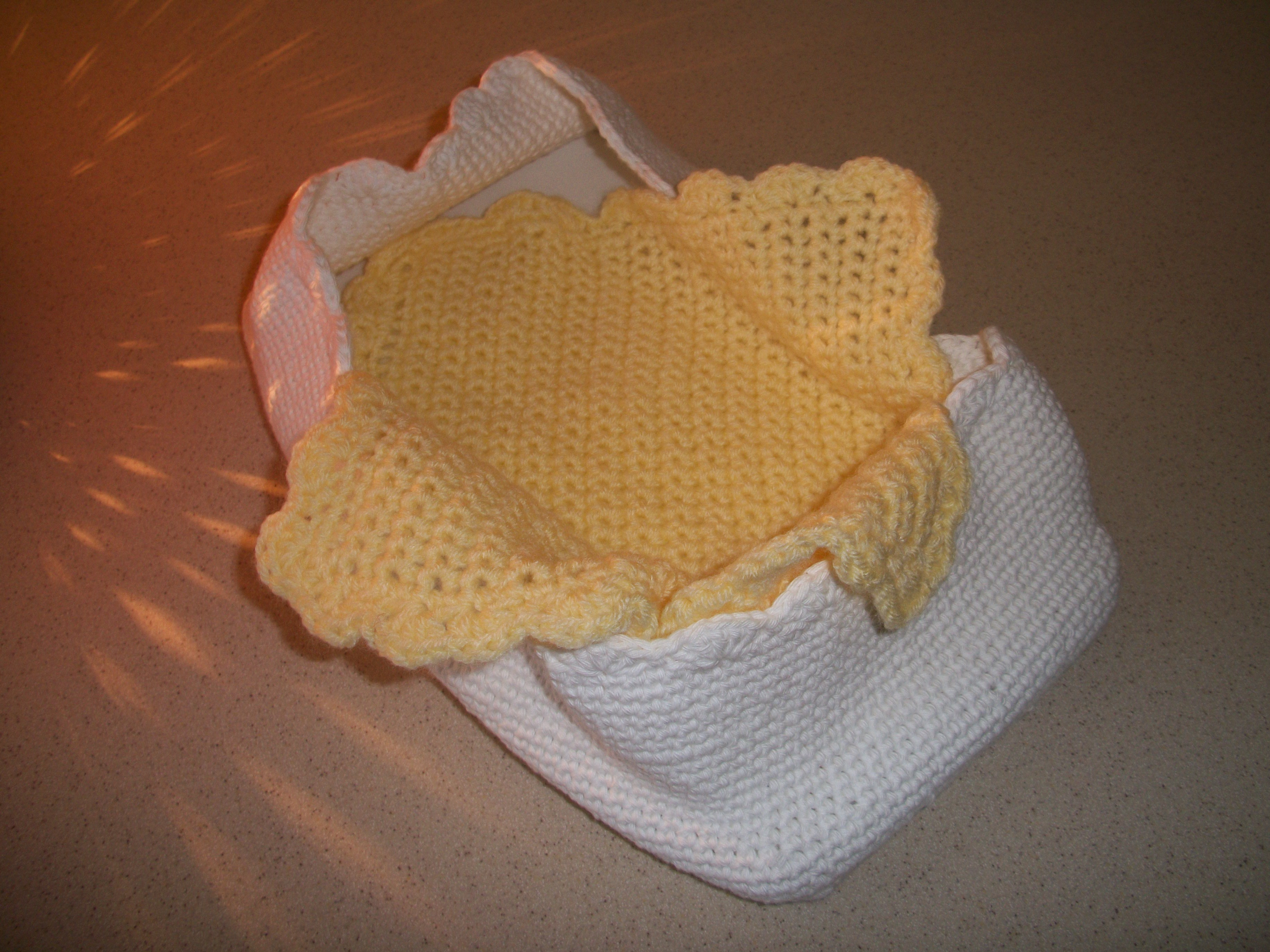 Handmade moses basket for miscarried or stillborn babies